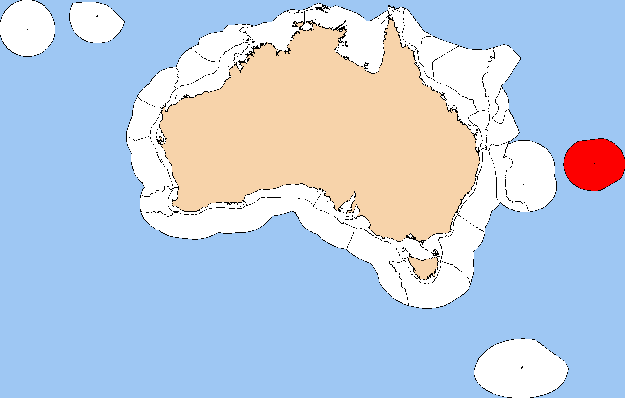 This is a map of Norfolk Island Province, a provincial bioregion under the Integrated Marine and Coastal Biogeographic Regionalisation of Australia (IMCRA) Version 4.0. Australia is displayed in brown, and open ocean not covered by IMCRA in blue. Norfolk Island Province is displayed in red, with the remaining area covered by the IMCRA regionalisation in white.